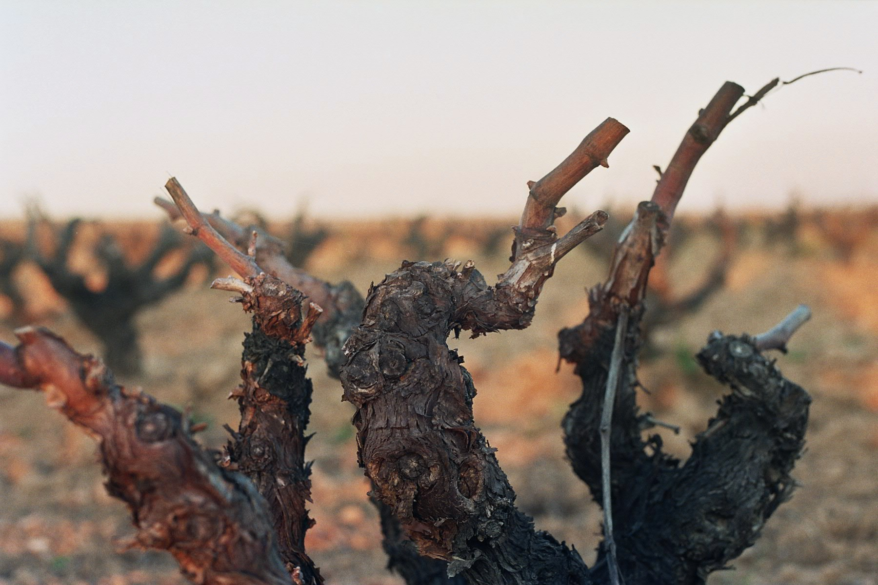 A grape plant in the Penedès region of Catalonia in winter.